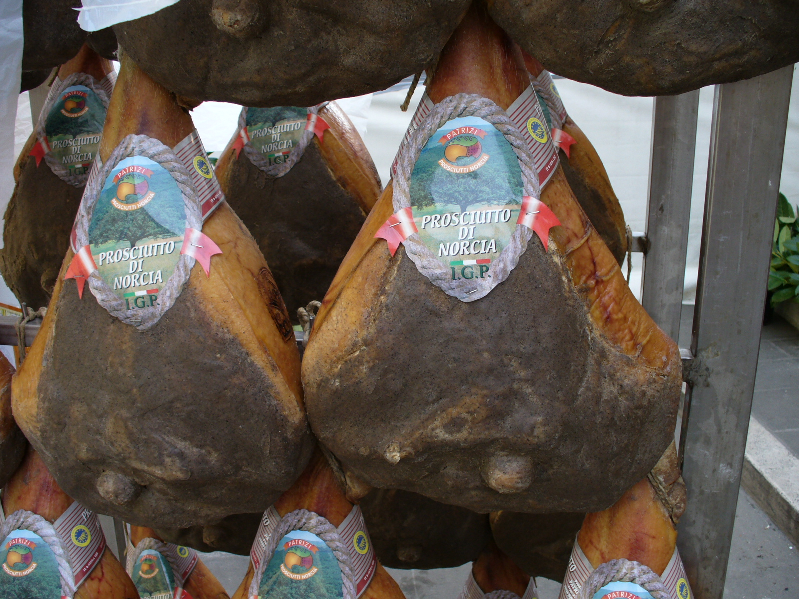 I.G.P. = Some good bread of Norcia with this very tasty Ham and a good glass of red wine(2003) is the MAXIMUM.